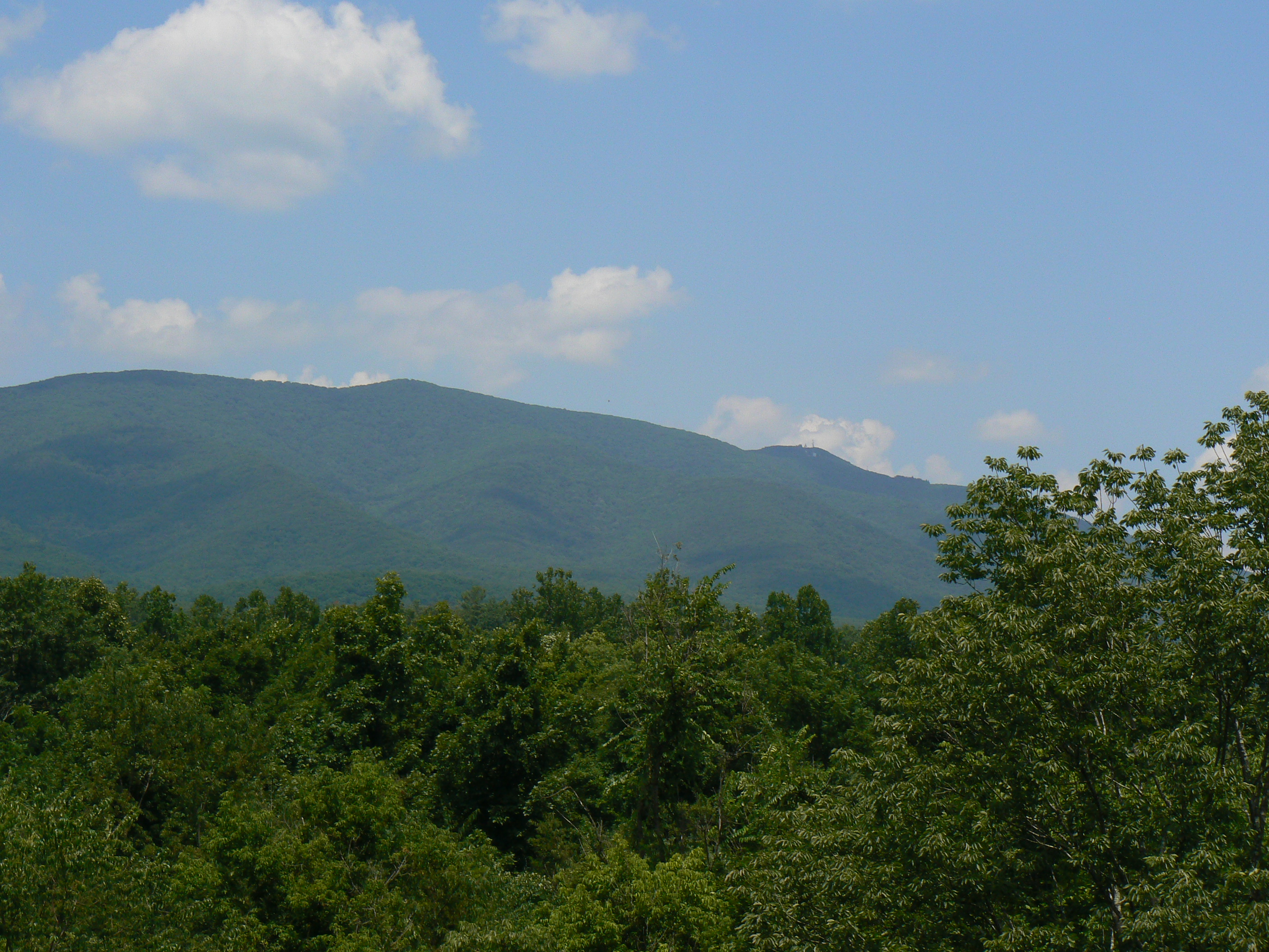 Elliott Knob (elevation 4,463 feet (1,360 m)) in George Washington National Forest, Virginia from the south. The high point is at far right and the knoll at left is known as Hogback (elevation 4,477 feet (1,365 m)).